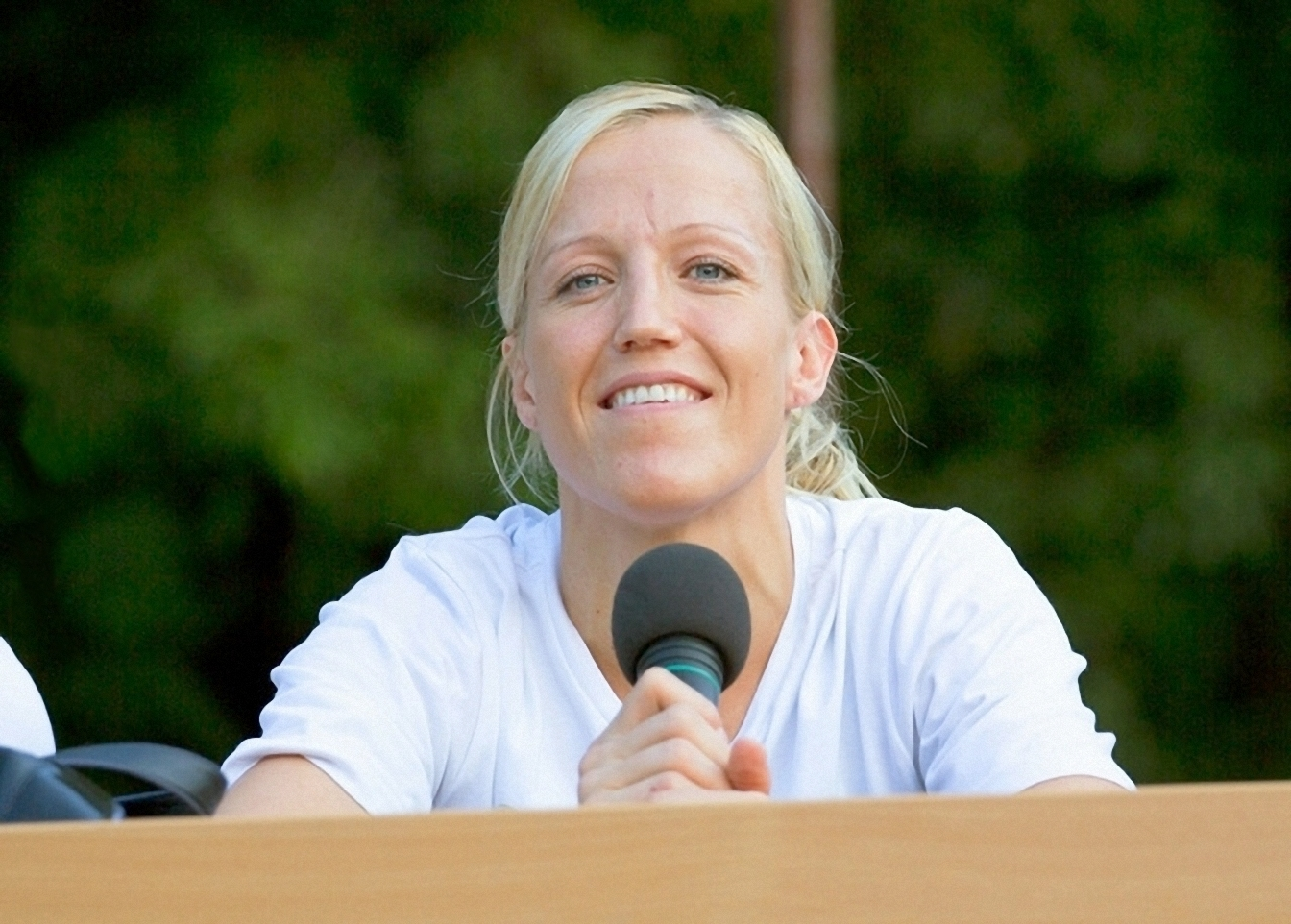 Norwegian handballer Heidi Løke on the Győri Audi ETO KC season opening event in 2011.